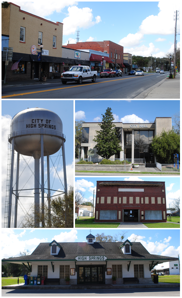 Photos I took in High Springs, Florida